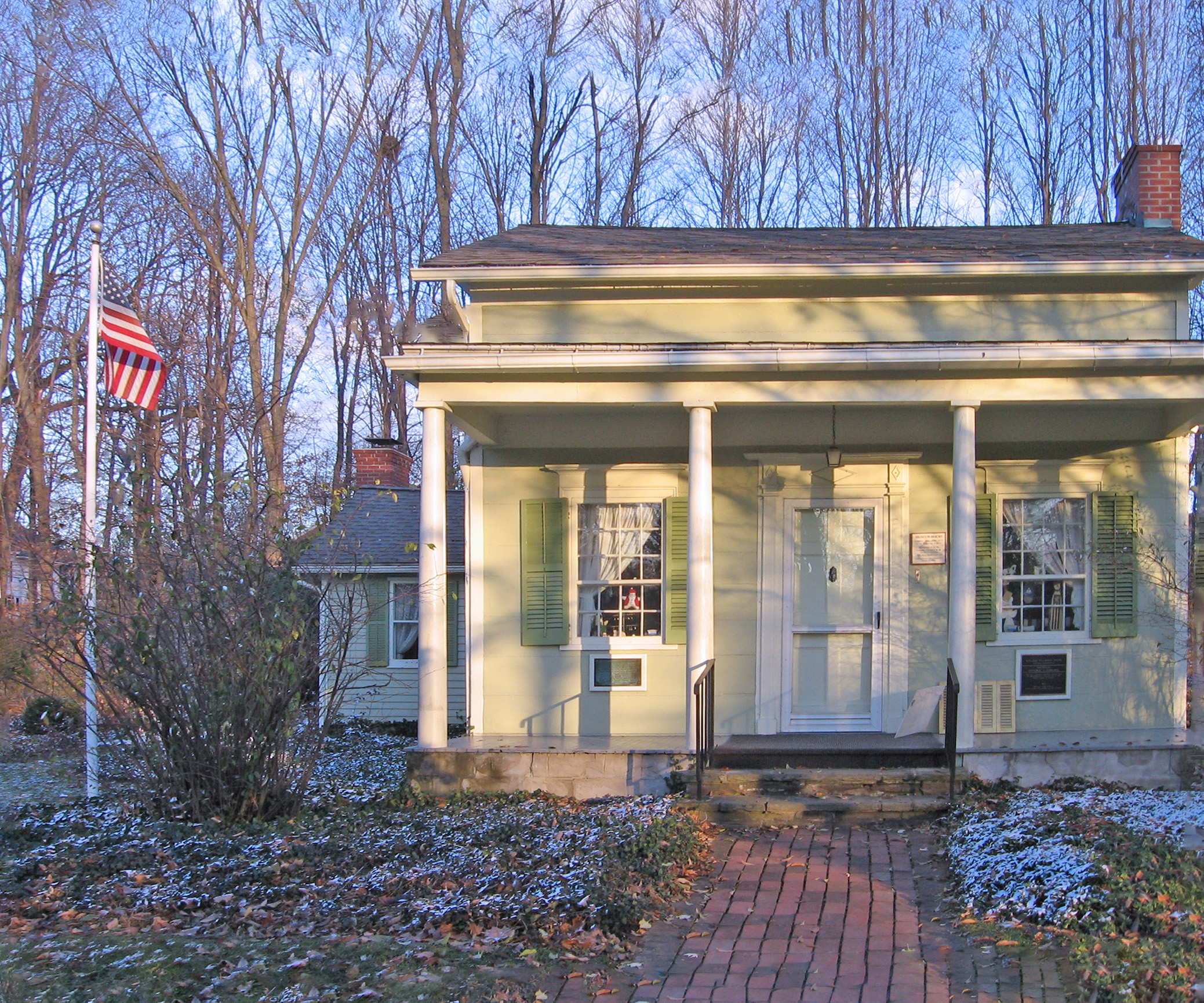 Millard Fillmore helped build this house in East Aurora, NY, in 1825, moving in with his wife Abigail in 1826. They lived here until 1830. It is the only surviving residence of Fillmore, aside from the White House. Image created and copyright held by Yoho2001 Toronto, ON. If used, please attribute the image as such.